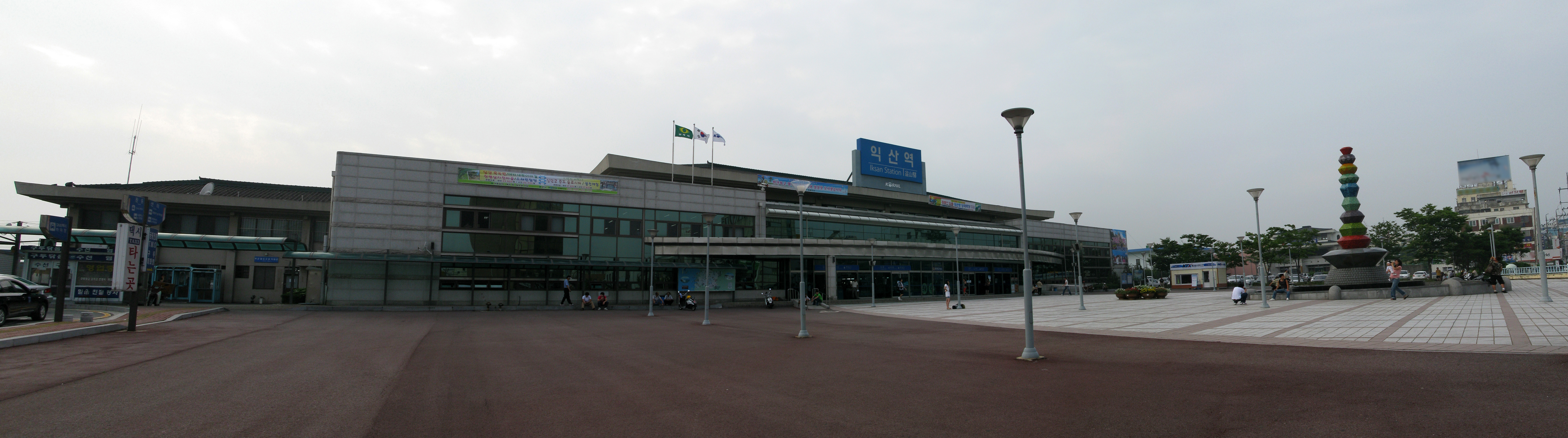 Honam, Jeolla, Janghang Line Iksan Station